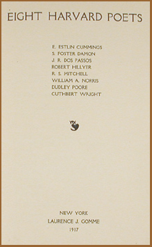 The title page of Eight Harvard Poets, an anthology of poetry by E. Estlin Cummings, S. Foster Damon, J. R. Dos Passos, Robert Hillyer, R. S. Mitchell, William A. Norris, Dudley Poole, and Cuthbert Wright.